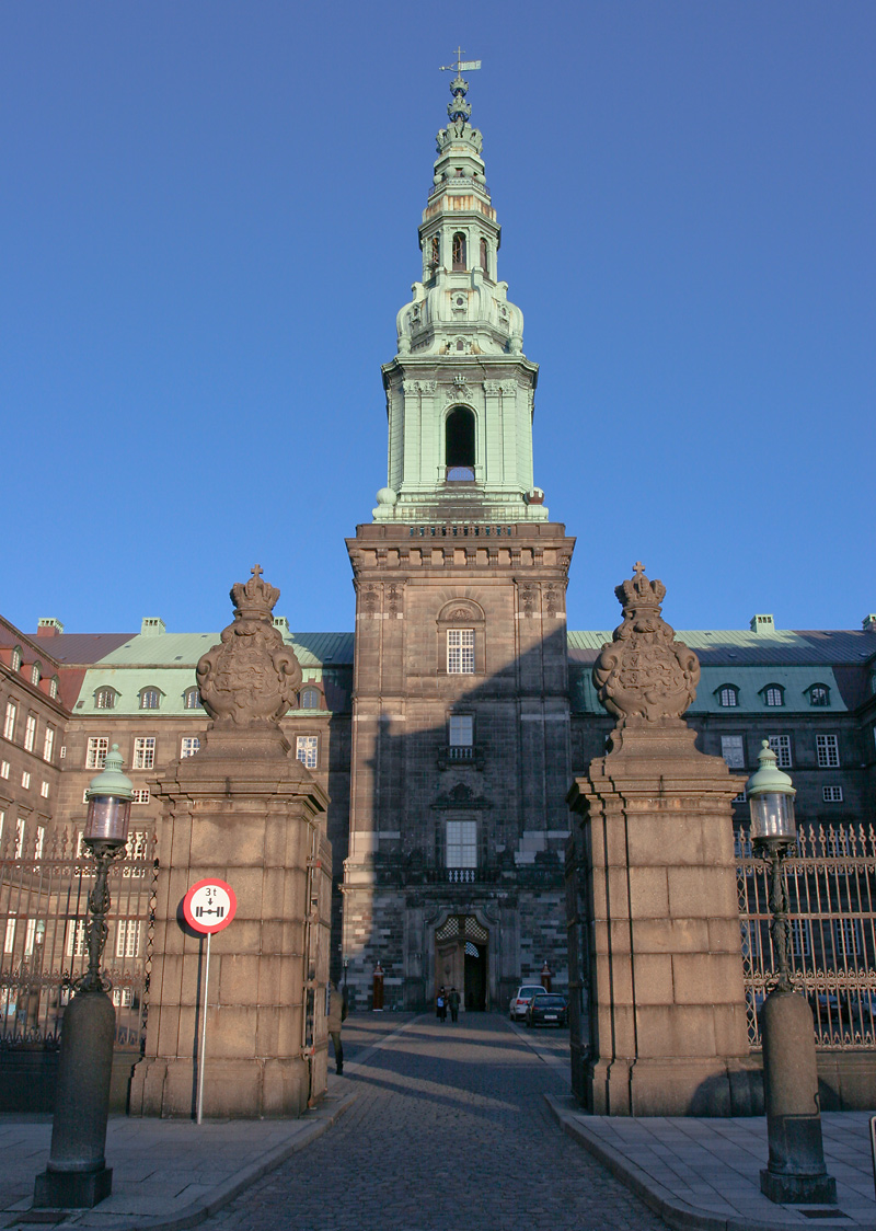 Christiansborg Castle seen from the showgrounds